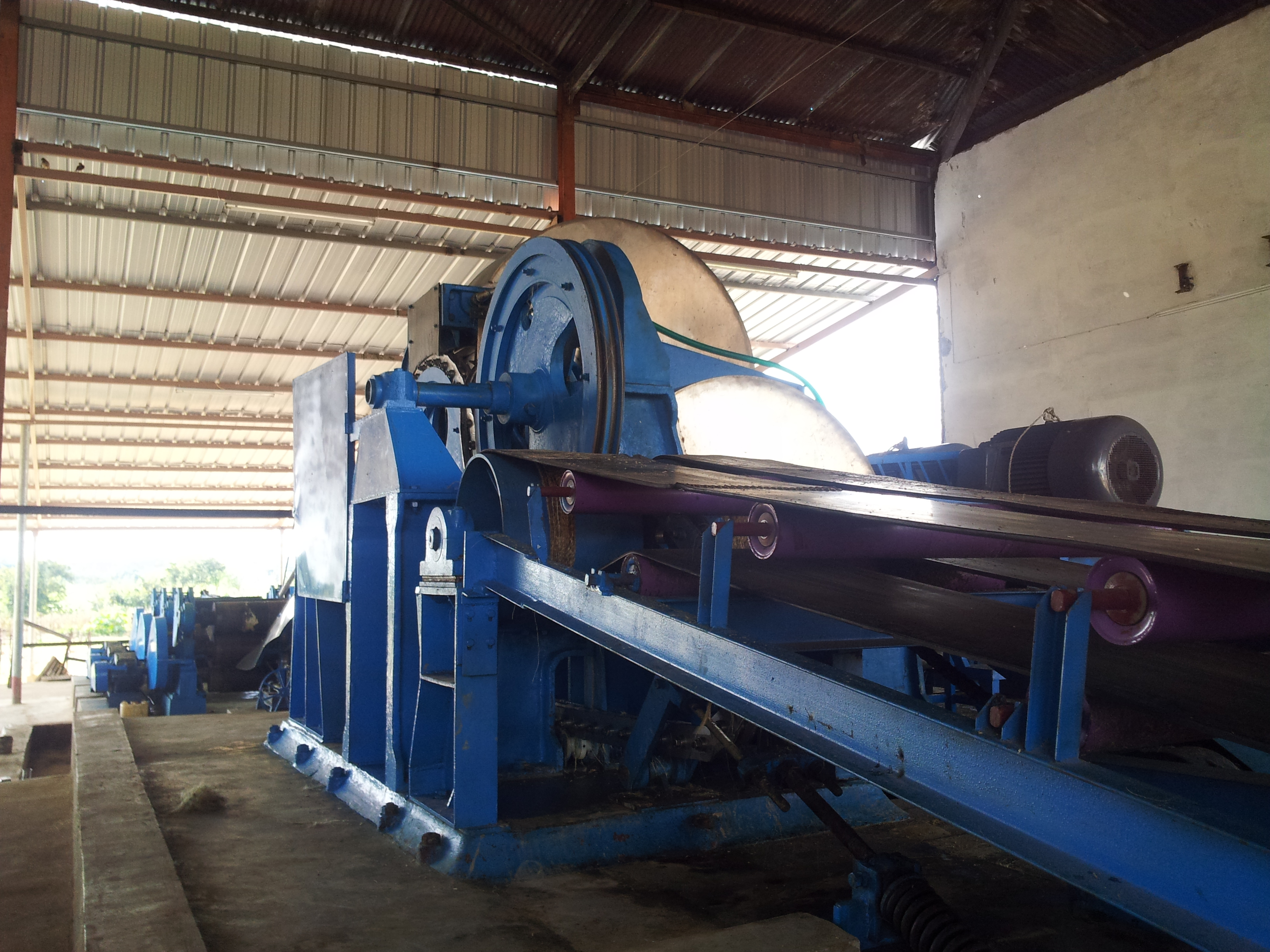 Only Non-stop Operation for One Shift (8-hour) can be considered as Full-Automatic Decorticator